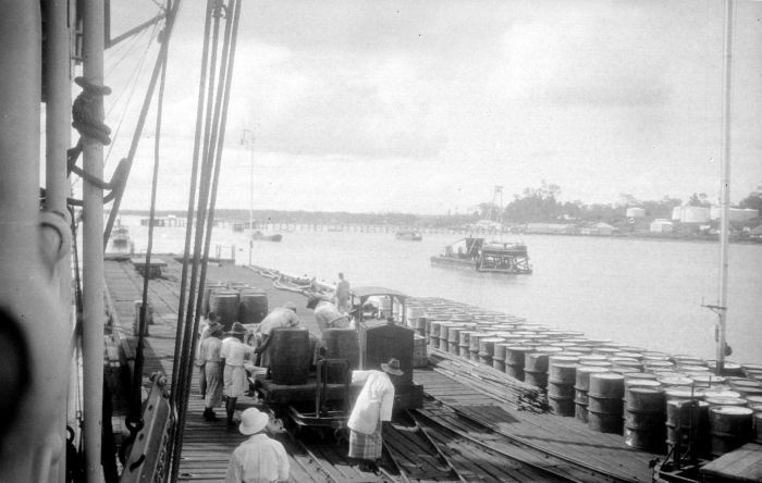 Repronegatief. Tarakan is an island located in the northernmost part of the east coast of 'Dutch' Borneo. Under the island in 1905 oil was found. With Tarakan Koetai produced a significant percentage of the oil from the Archipelago. This proportion rose to almost 55% in 1914 to over 70% in 1925. From 1928 however, the share due to the strong growth of Sumatra's oil production. The production and processing of the oil was in Borneo in the hands of the Batavian Petroleum Maatschappij (BPM), a subsidiary of the partnership 'Royal' / Shell. In 1929 there were 4000 coolies, especially Javanese, the Tarakan island while 170 staff were European. (P. Orchard, 2001). Afscheepsteiger Tarakan 14